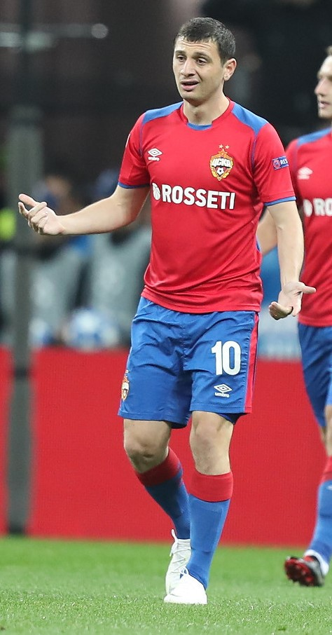 Alan Dzagoev